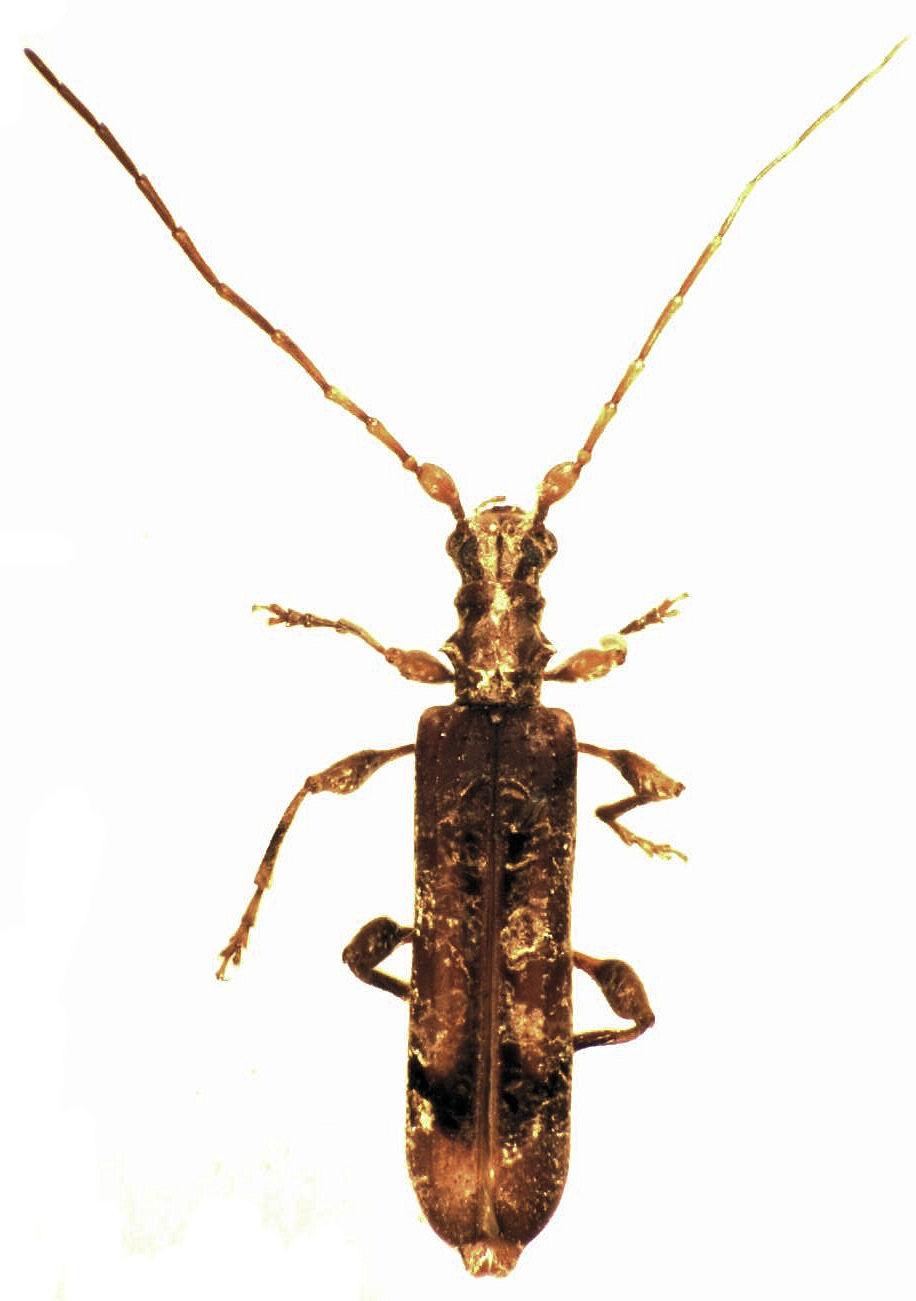 adult Tessaromma undatum